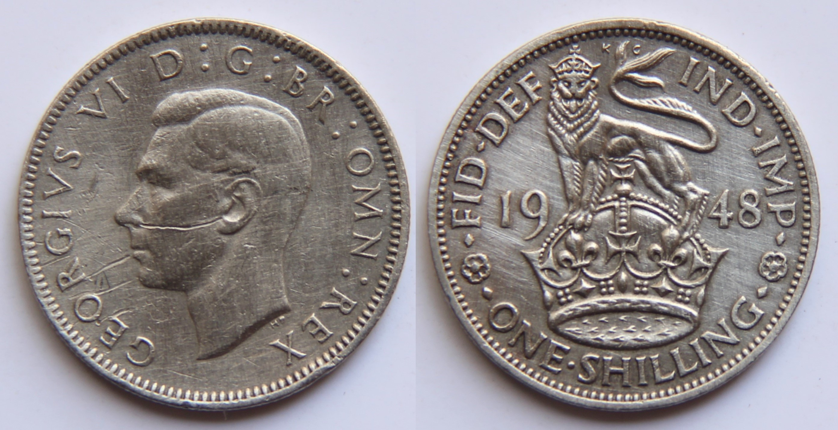 Face value: 1 Shilling. Country: United Kingdom. Year of minting: 1948. Metal: Copper-nickel. Shape: Round. Obverse: Bare head portrait of George VI facing left, name and lettering "D:G:BR:OMN:REX" (George VI by the Grace of God, King of all the British territories). Reverse: Face value, year, crowned lion rampant atop crown divides date, legend above and lettering "FID DEF IND IMP" (Defender of the Faith, Emperor of India). Edge: Milled. Weight: 5.65 g. Diameter: 23.5 mm. Thickness: 1.76 mm. Orientation: Medal alignment ↑↑. Total mintage: 57,697,500 coins minted in 1947-1948. Engraver: Thomas Humphrey Paget. Comment:Crown copyright: For all work created before 1989, copyright expires after 50 years. Monetary status: Demonetized on 31 Dec 1990. Data source: This webpage.